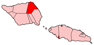 Map of Samoa showing Gaga'emauga district. Made by User:Golbez.